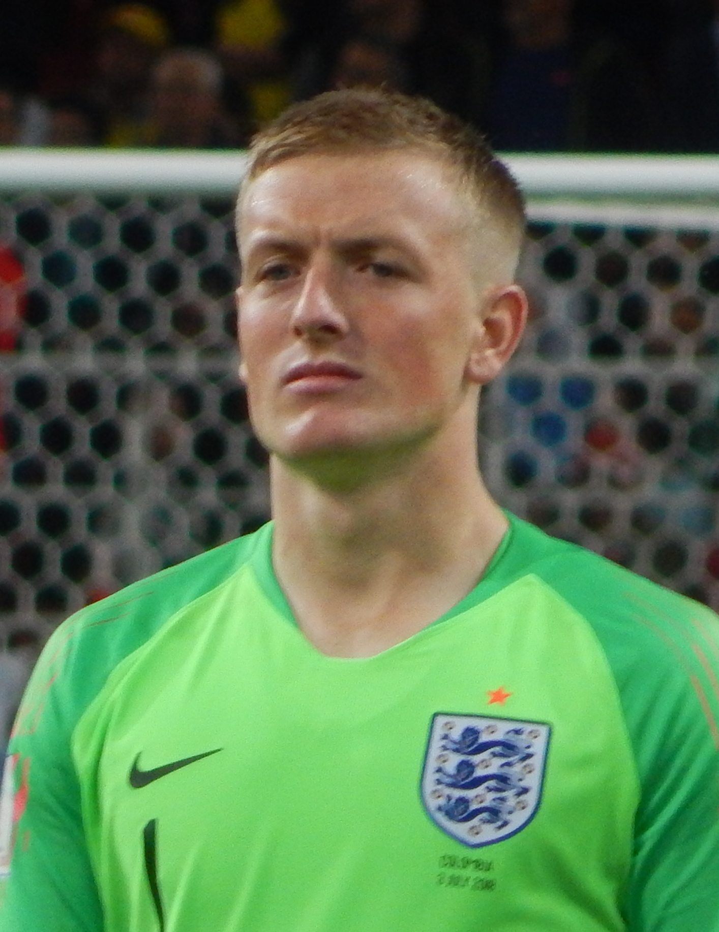 FIFA World Cup 2018, Round of 16, Colombia vs. England